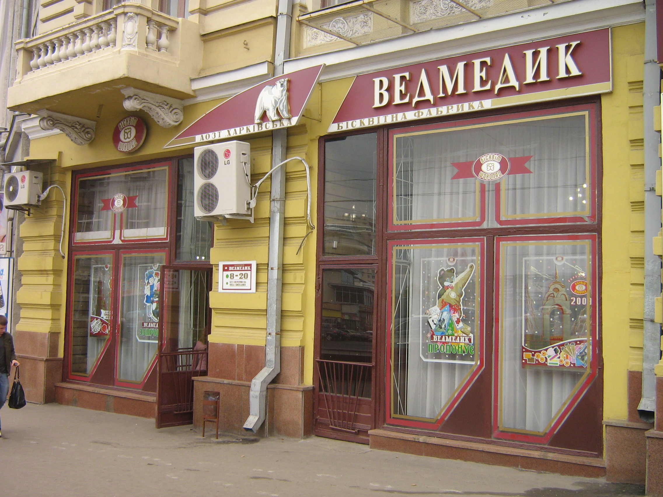 Shop "Bear cub". "Biscuit-Chocolate" Corporation. Kharkiv. Ukraine.